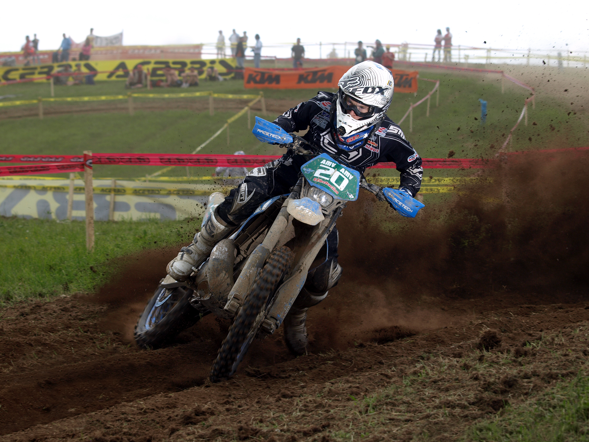 EJ - Joshua Green (AUS, TM) at the 2010 MAXXIS FIM Enduro World Championship GP of Italy, in Lovere (41st Valli Bergamasche).